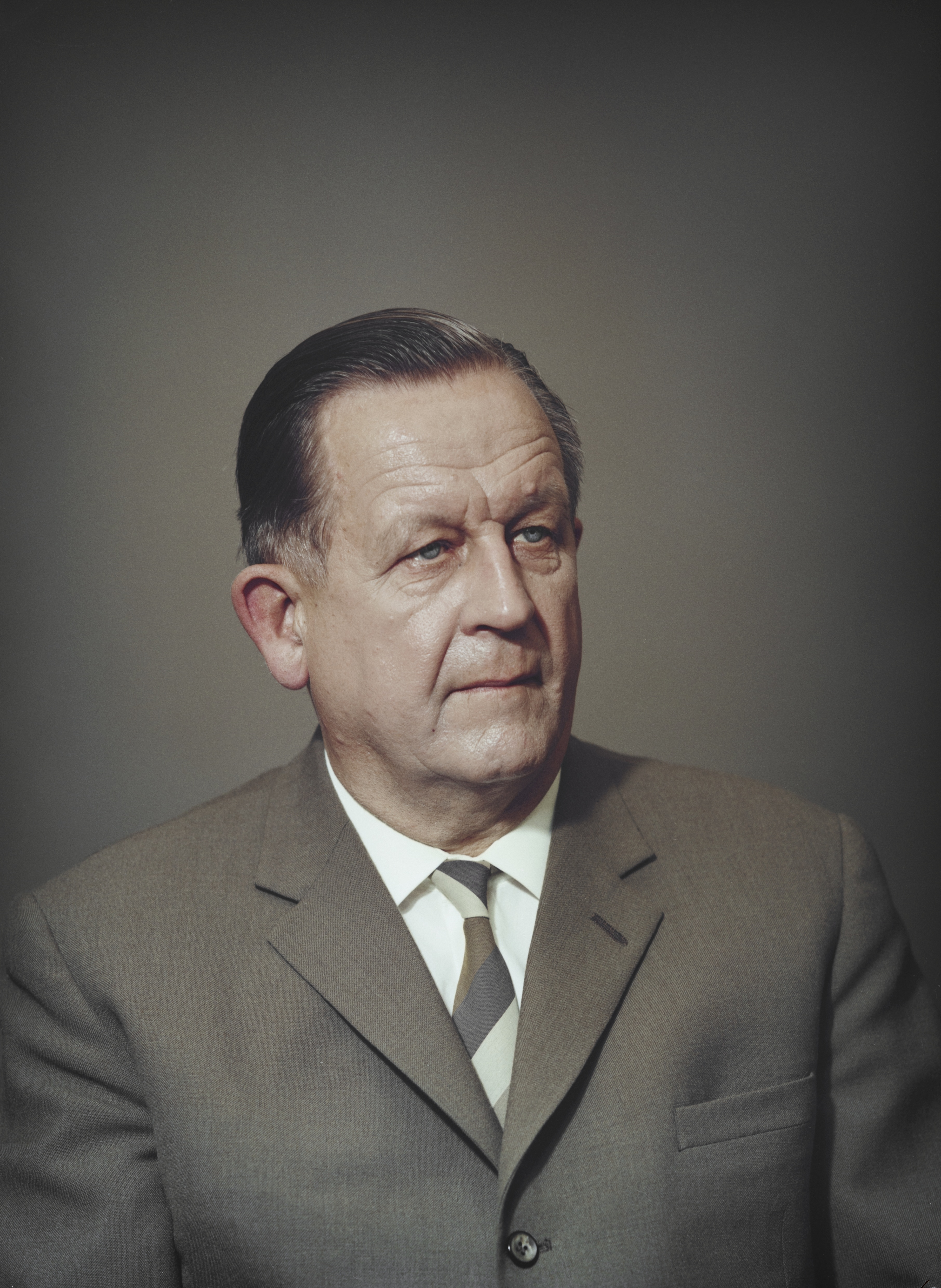 Photograph of the Finnish politician, historian and economist Keijo Alho (1907–1994).